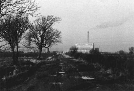 Long Lane, Farndon looking west to Staythorpe Power Station on the River Trent.